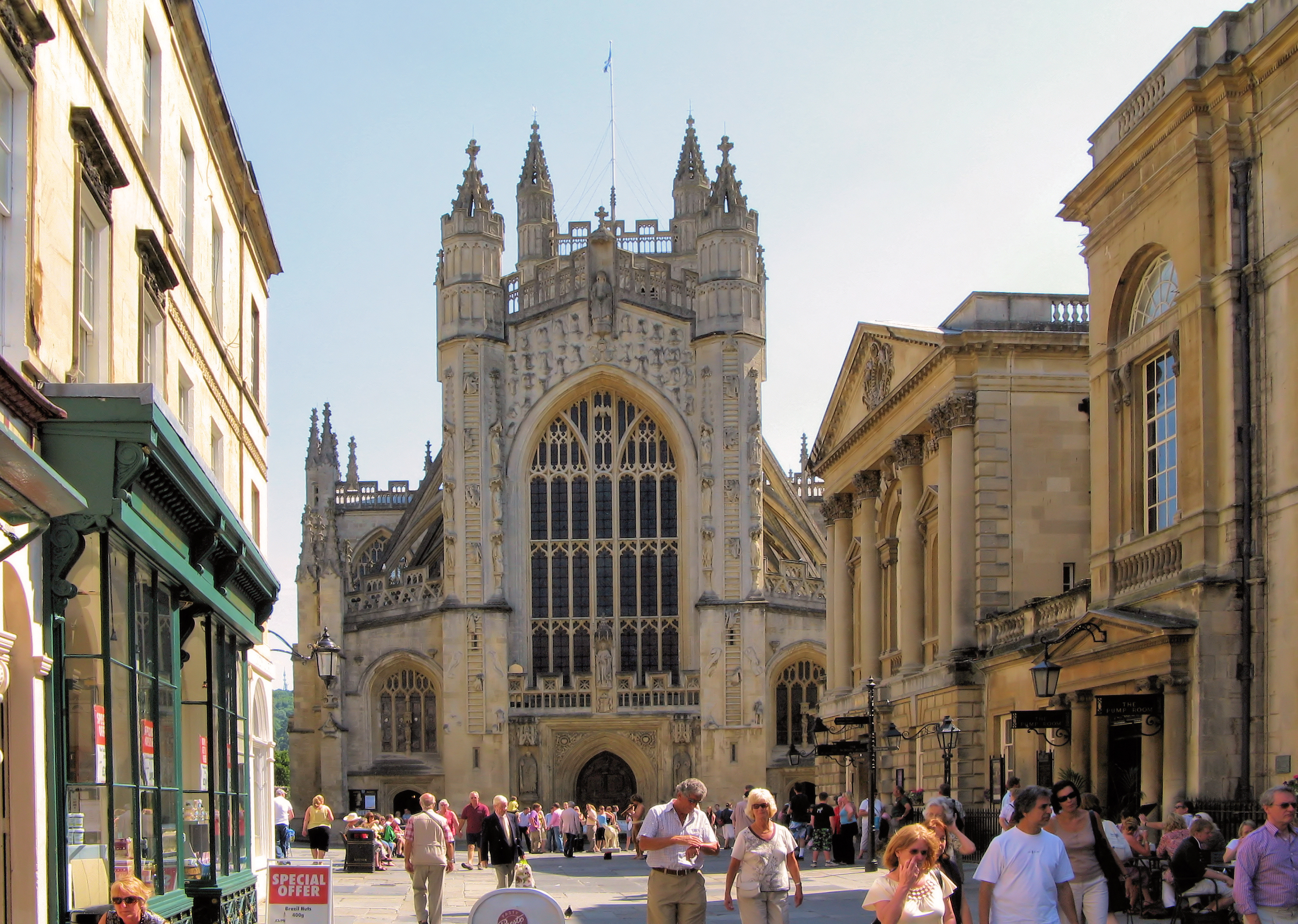 Bath Abbey West Front, Roman Baths and Pump Room, in Bath, Somerset, England. The Roman Baths entrance is the building with 6 columns, immediately to the right of the Abbey. The Pump Room entrance is next right (below the hanging lamp).